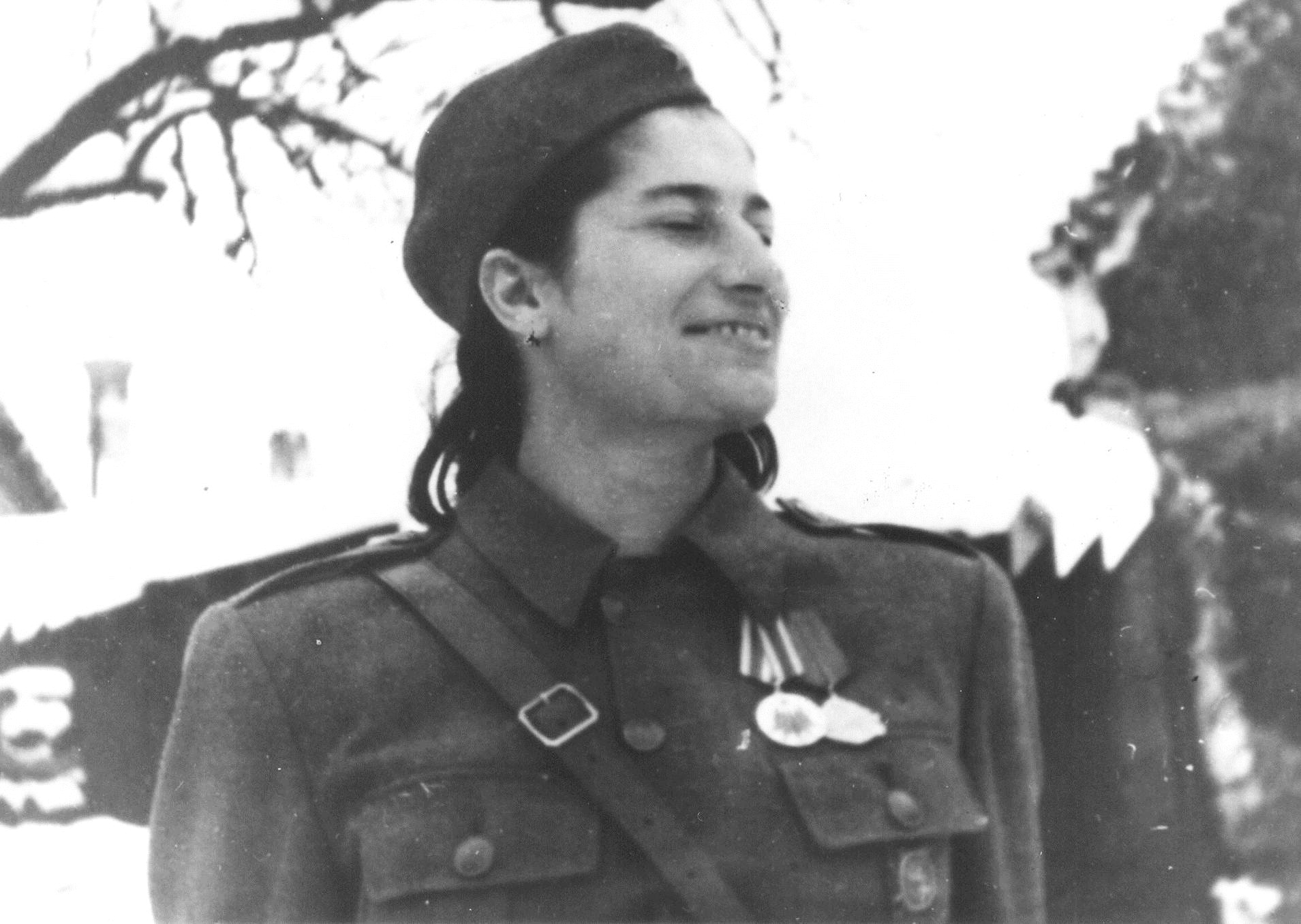 Neda Božinović (1917 – 2001)